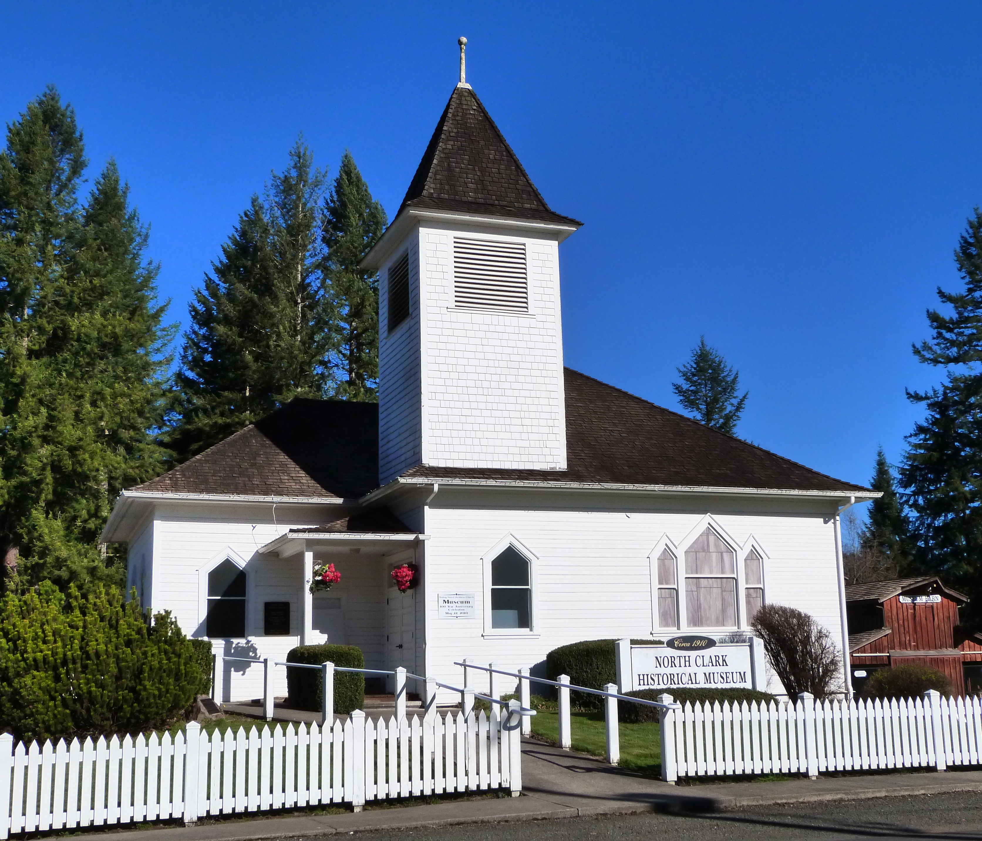 The historic Amboy United Brethren Church (built 1910), located at 21416 Northeast 399th Street in Amboy, Washington, United States, is listed on the US National Register of Historic Places. As of the photo date, it has been adapted for use as the North Clark Historical Museum.